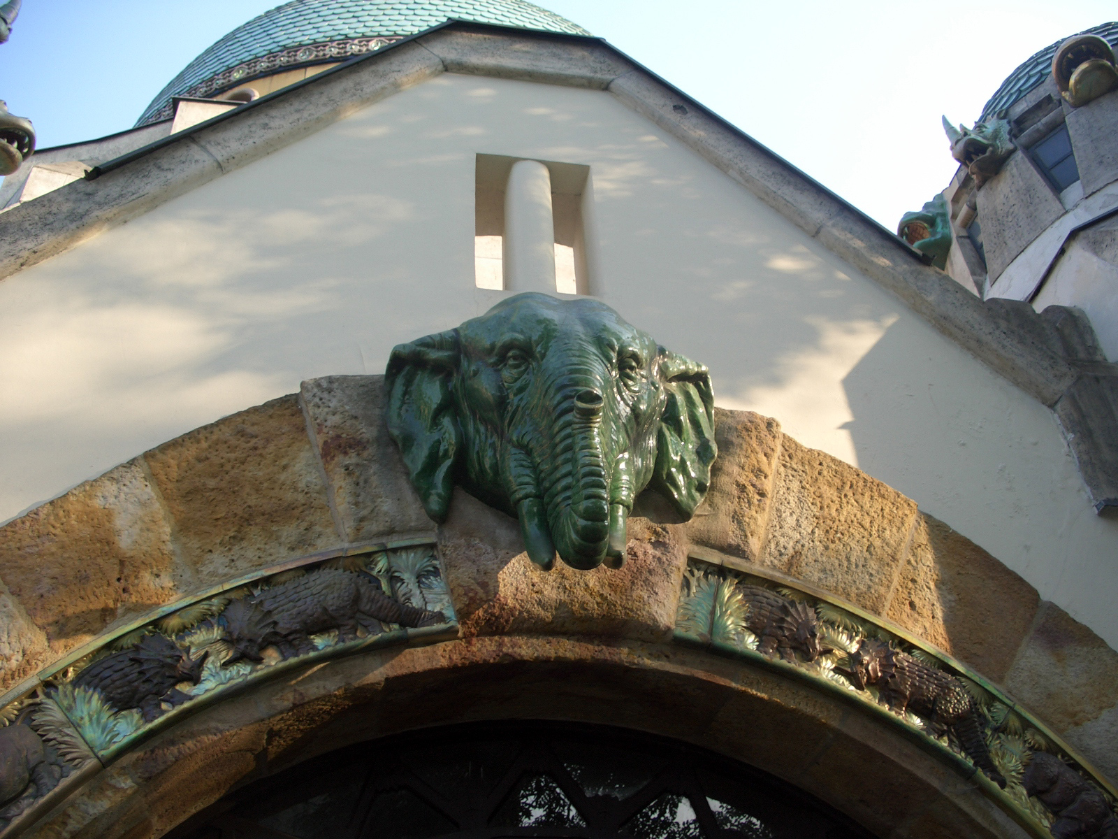 hungary budapest zoo entrance elephant house